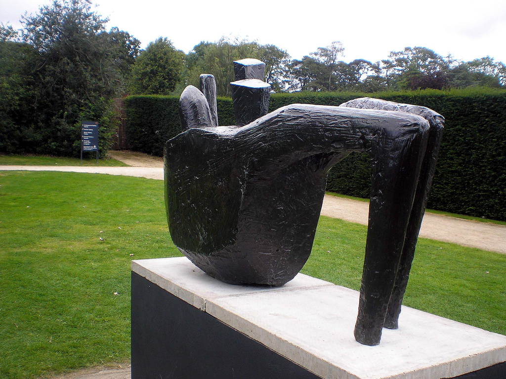 Figure on its back- Kenneth Armitage - Yorkshire Sculpture Park/ U.K.